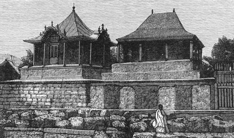 Drawing of the tombs of King Radama I and Queen Rasoherina at the Rova of Antananarivo, Madagascar Illustration des tombeaux du roi Radama I et la reine Rasoherina au Rova de Tananarive, Madagascar